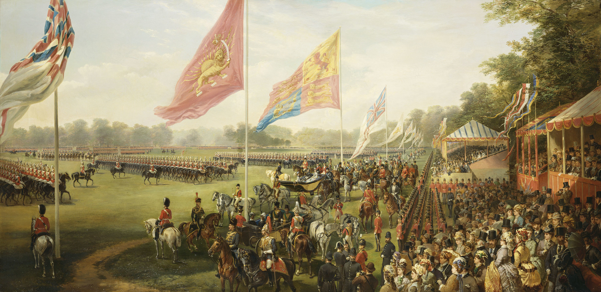 The Review in Windsor Great Park in Honour of the Shah of Persia, 24 June 1873 - UK, Windsor - 1877 - Oil on canvas - Royal collection trust - RCIN 402007.